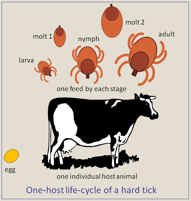 A one-host life-cycle of a hard tick such as Rhipicephalus (Boophilus) microplus feeding on one individual cow.